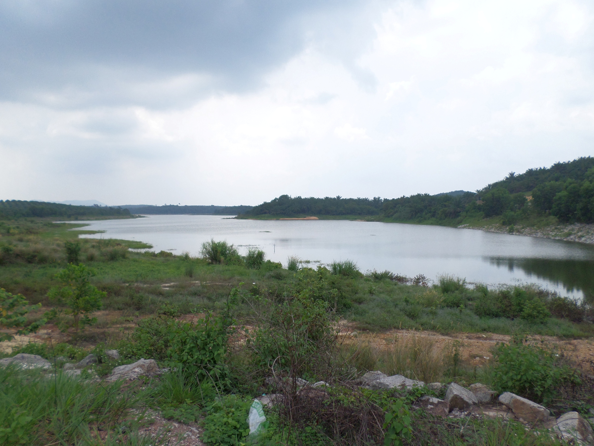 Jus Reservoir, Jasin, Melaka, MalaysiaBahasa Melayu: Takungan Jus, Jasin, Melaka, Malaysia